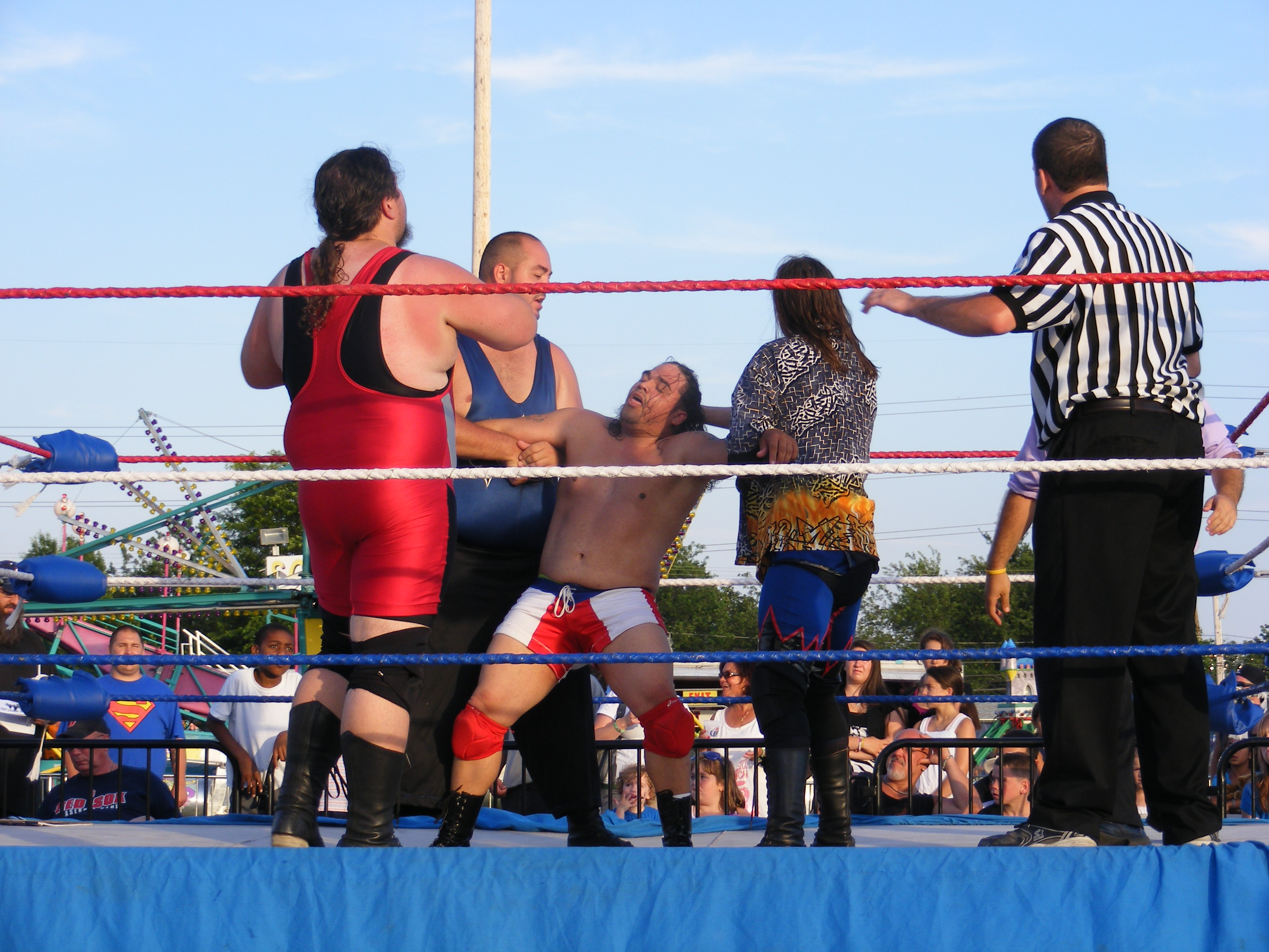 Matt Storm, with Mr. Munroe (left) and T.J. Richter (right), attack Papi Cruz following their match in East Providence during Power League Wrestling's "2011 Great Outdoors Tour".